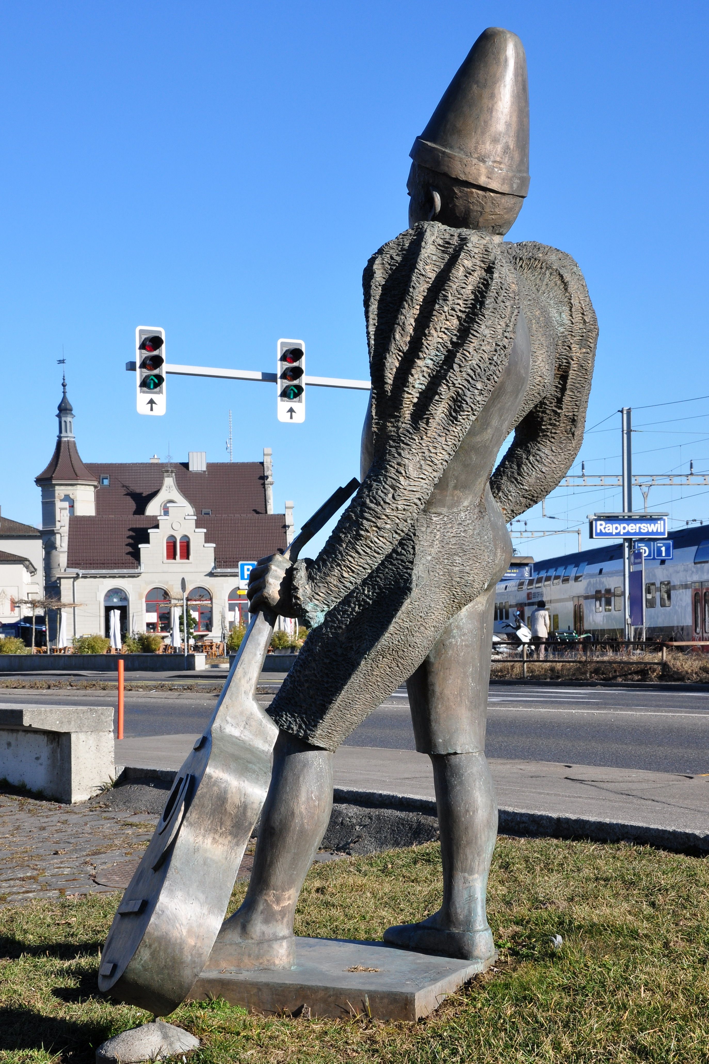 Symbol of the Circus Knie located at the harbour in Rapperswil (Switzerland), the train station in the background, Seedamm to the right.